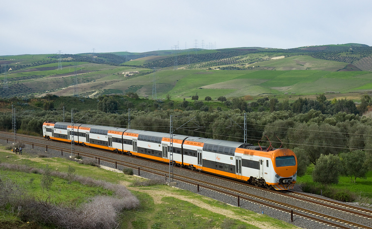 EMU Z2M of ONCF between Sidi Mbarek du R'Dom and Bab-Tisra, Morocco